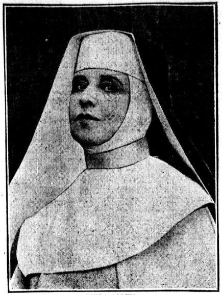 Photograph appeared in The Washington Times on June 9, 1915.